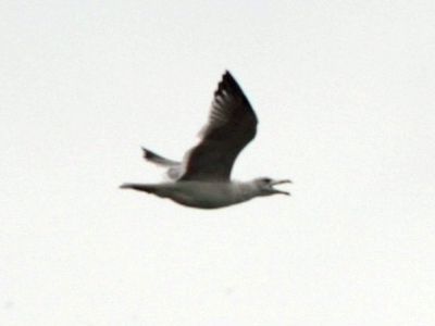 Armenian Gull (Larus armenicus) at Lake Severn, Armenia. Photographed 31 October 2007